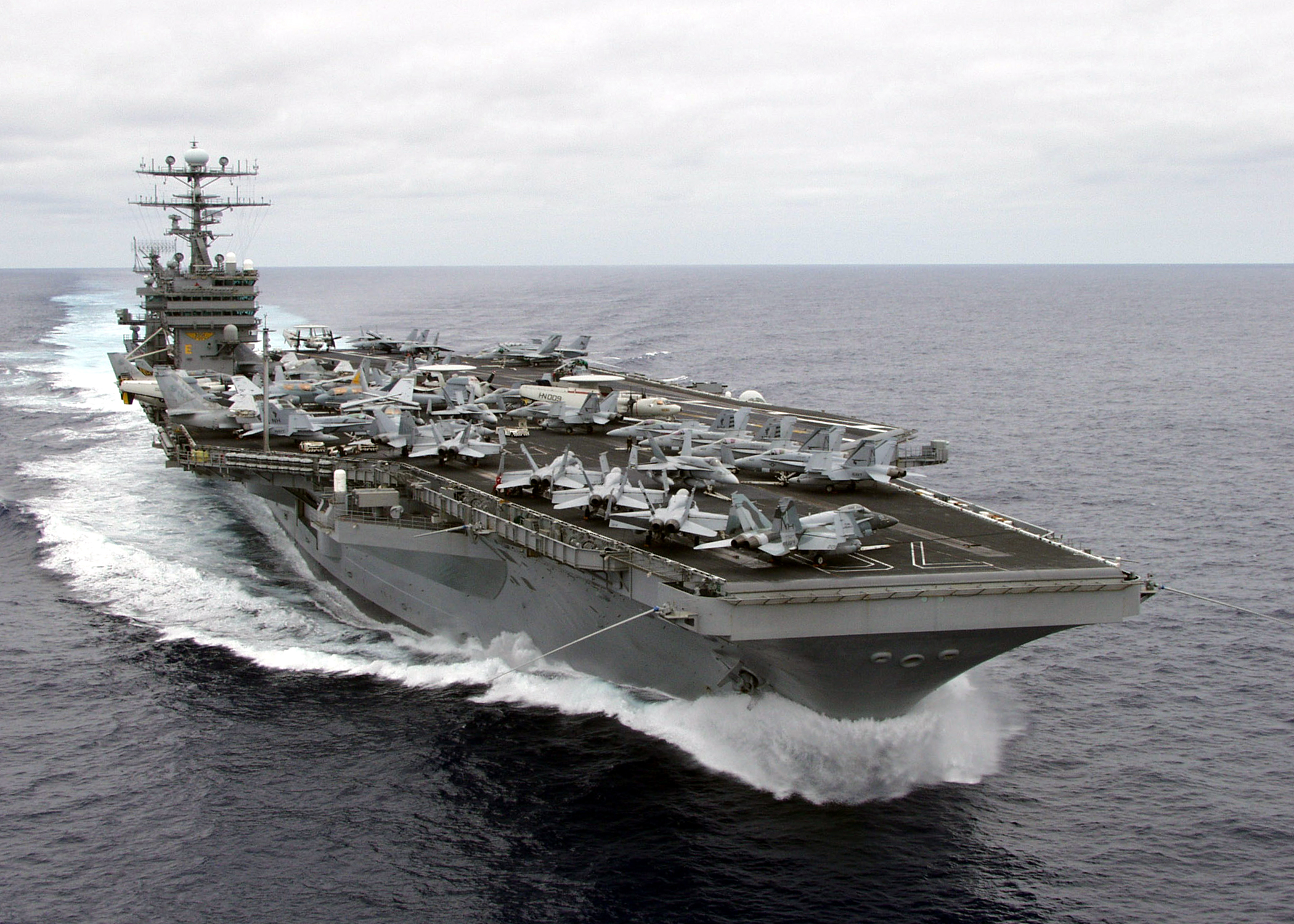 The Pacific Ocean (Jul. 30, 2001) --The Nimitz Class aircraft carrier USS Carl Vinson (CVN 70) transits the Pacific Ocean on a scheduled six-month deployment to the Western Pacific and Arabian Gulf regions. U.S. Navy Photo by Chief Photographer's Mate Daniel Smith. (RELEASED)